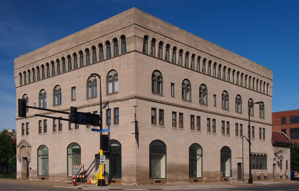 Architects and Engineers Building, Minneapolis, Minnesota, USA